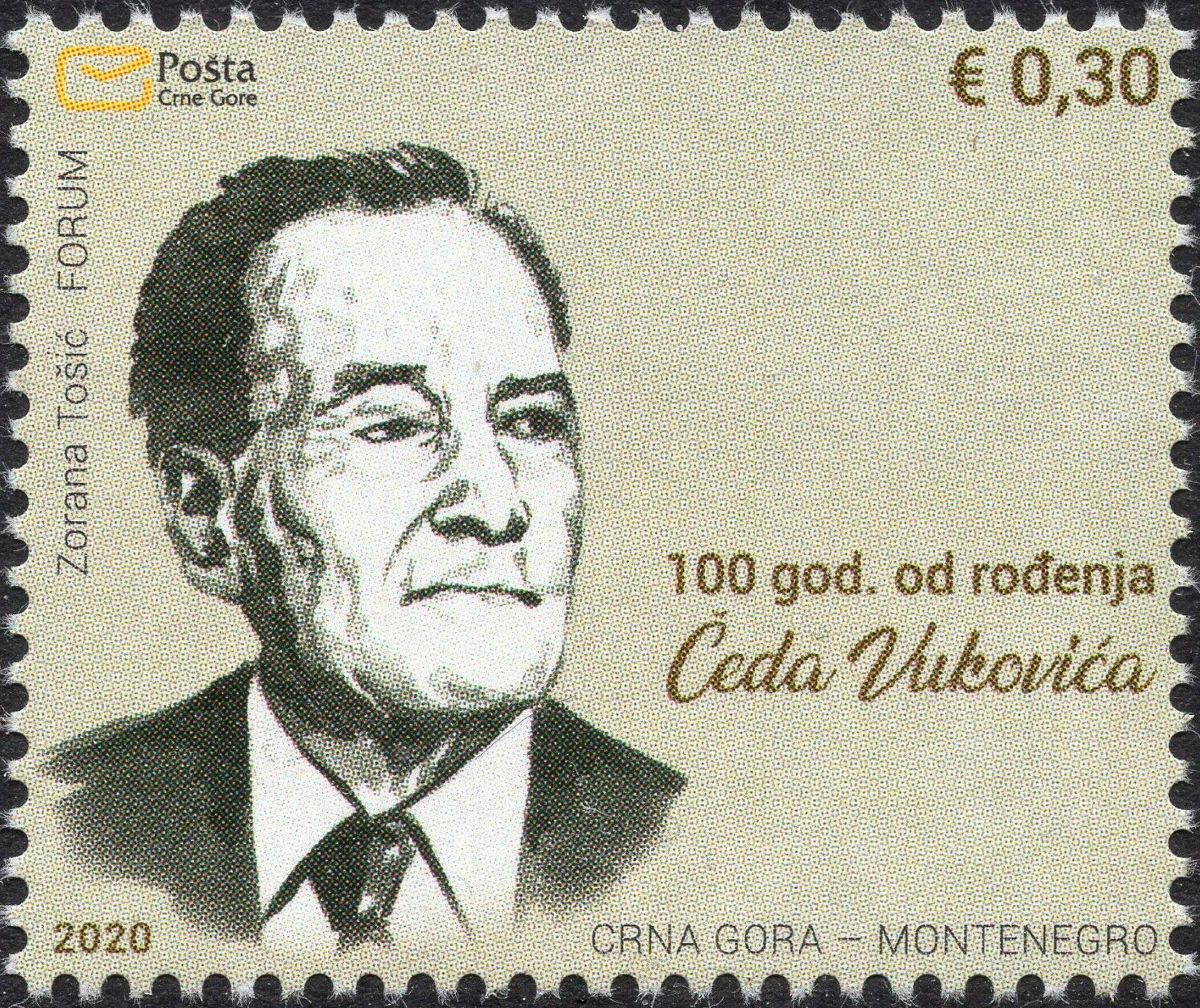 100th birth Anniversary of Čedo Vuković